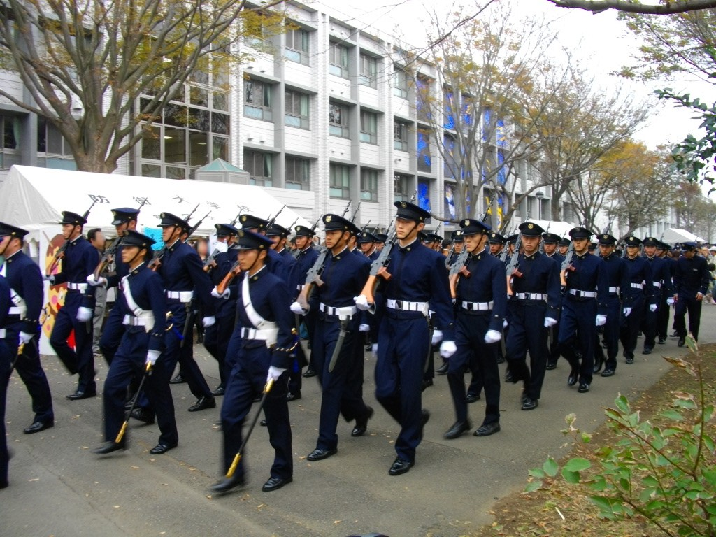 NDAJ(National Defense Academy of Japan) cadets parade